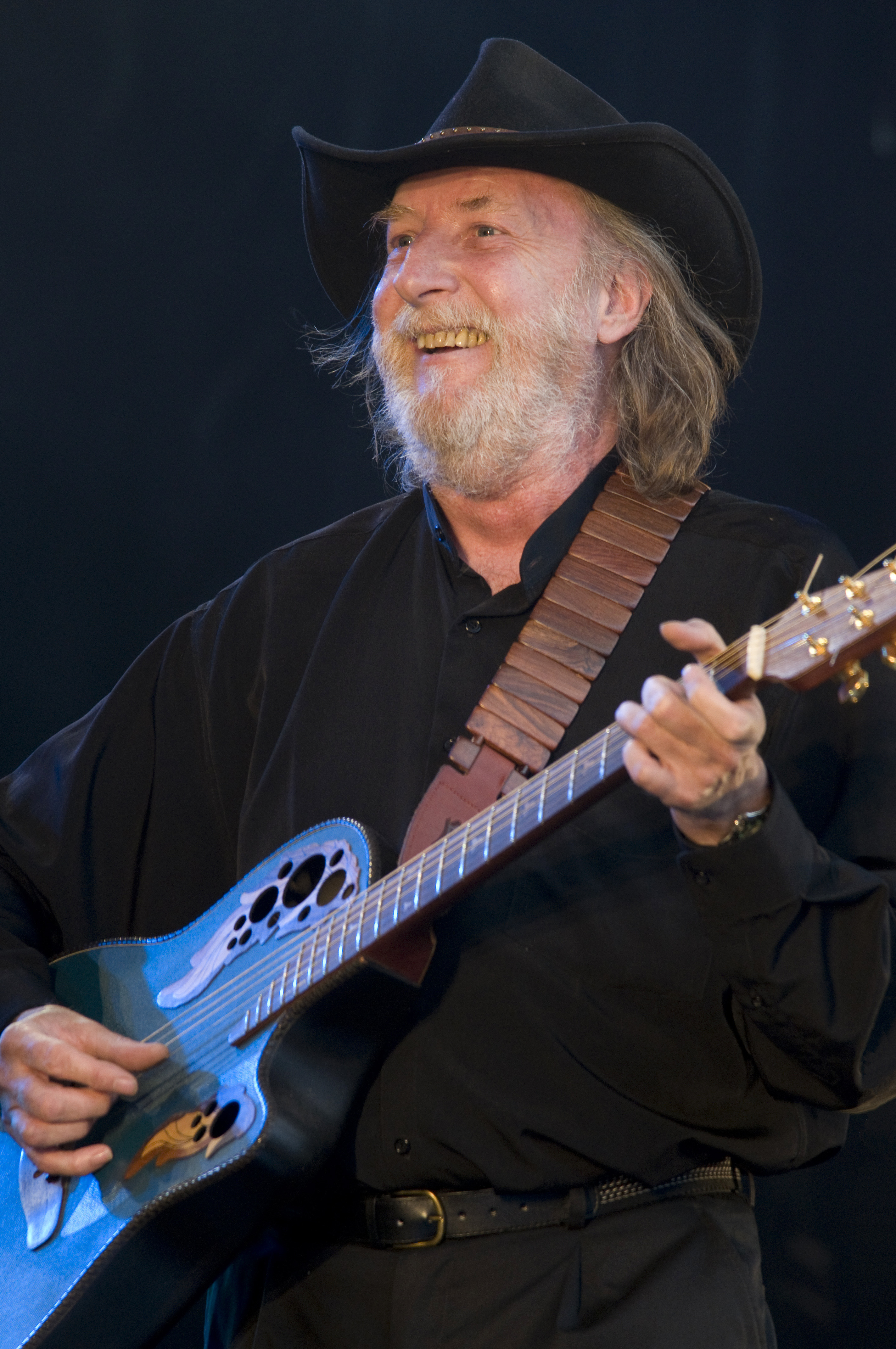 Corbier live at Aux Zarbs festival 2008 (Auxerre, France).